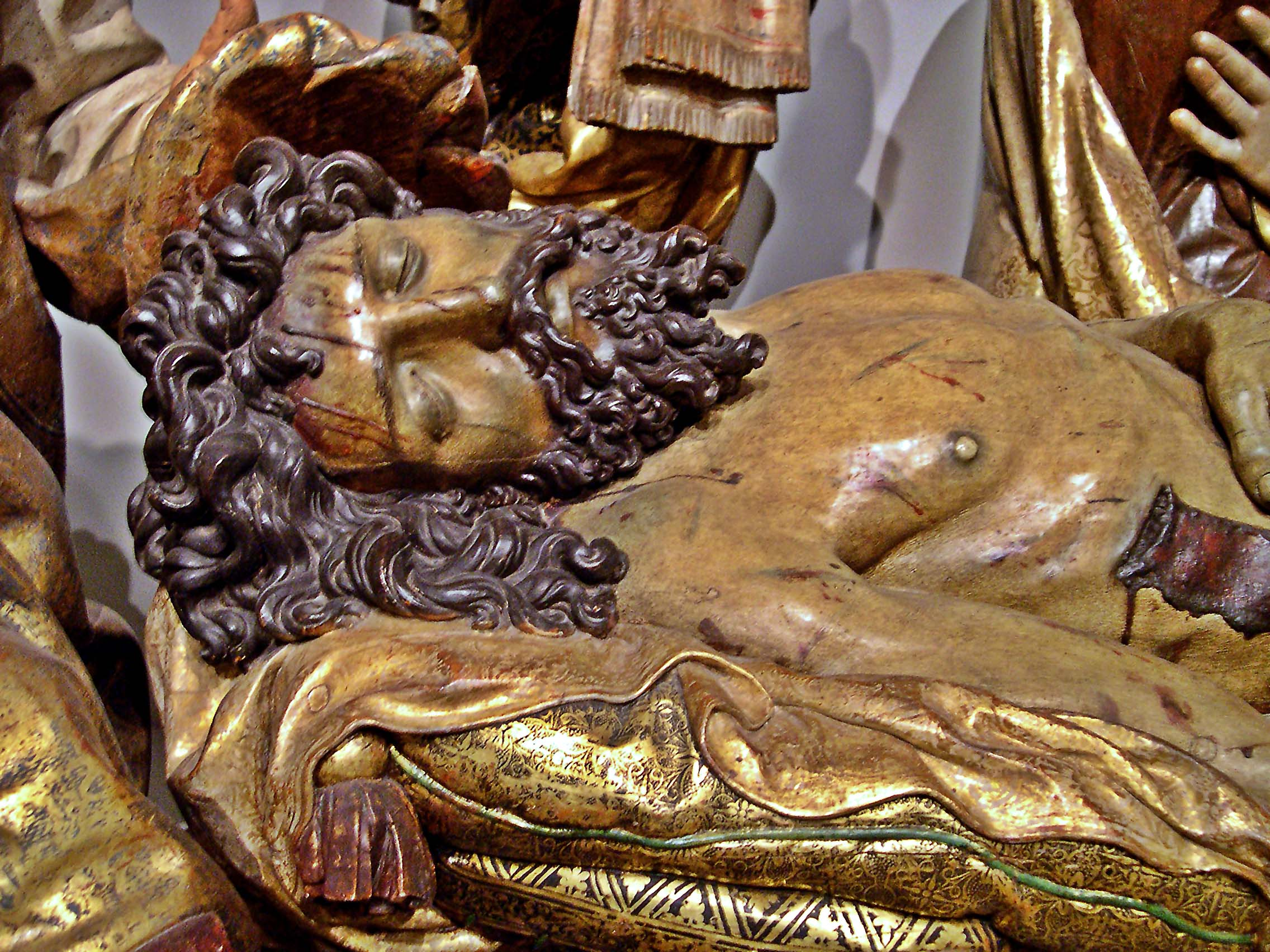 The Holy Burial (detail), sculpture in polychromed wood, actually exposed in the Museo Nacional de Escultura, in Valladolid (Spain)